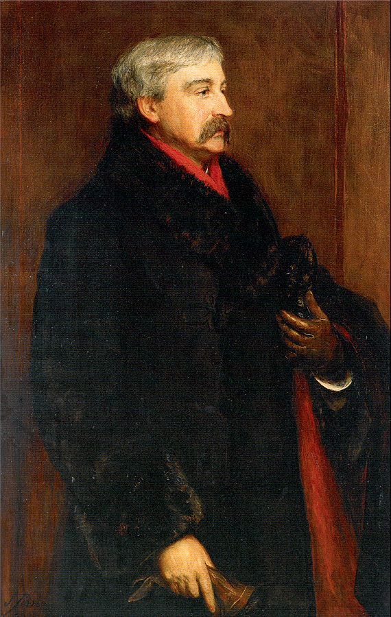 Bret Harte (1836-1902) by John Pettie (1839-1893)